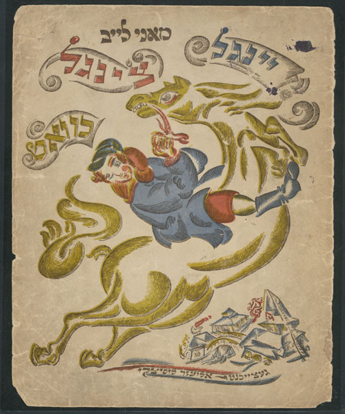 Description: Yingl tsingl khṿaṭ / יינגל צינגל כוואט To read the entire book, clickhere. Author: Mani Leib, 1883-1953 Author: Lissitzky, El, 1890-1941 Dimensions: 12 pages Date: 1918 Persistent URL: Repository: YIVO Institute for Jewish Research, 15 West 16th Street, New York, NY 10011 Call Number: 0000025438 Rights Information: No known copyright restrictions; may be subject to third party rights. For more copyright information, click here. See more information about this image and others at CJH Digital Collections. Digital images created by the Gruss Lipper Digital Laboratory at the Center for Jewish History